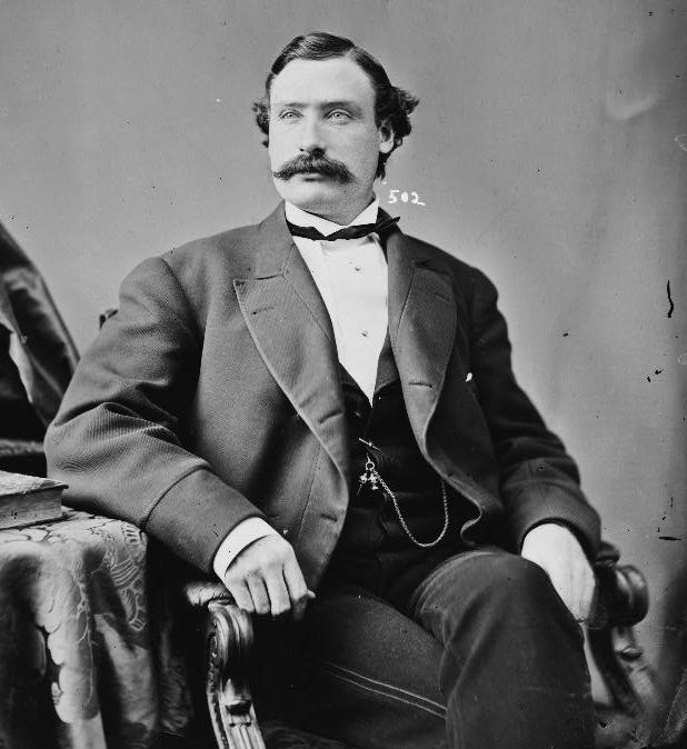 Hon. John Fox of N.Y.